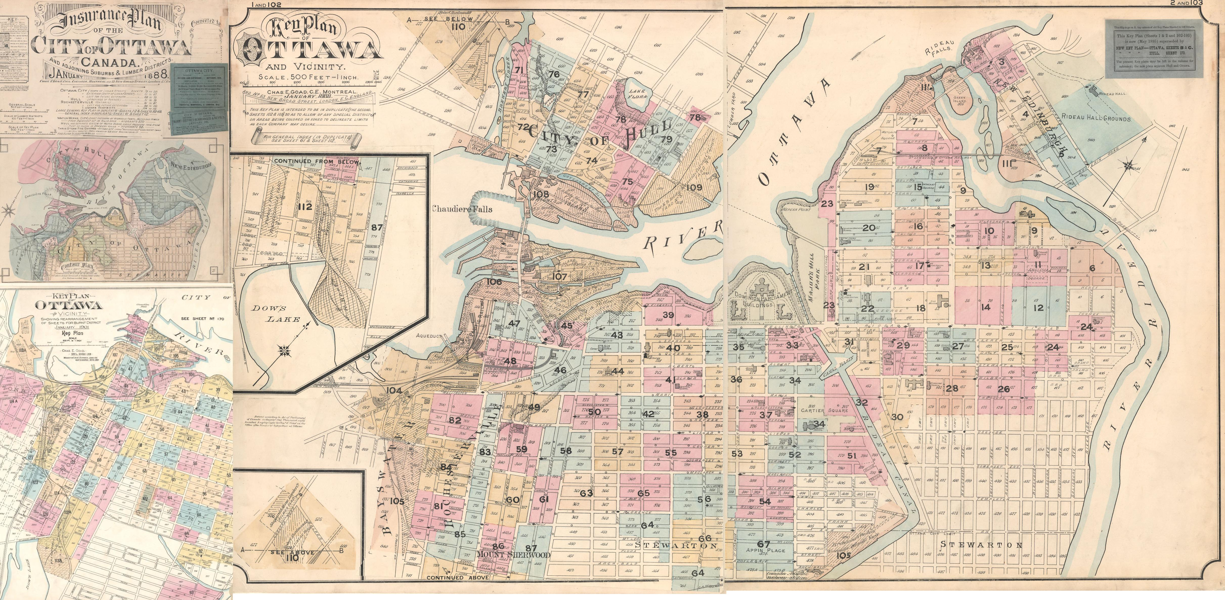 Insurance plan of the city of Ottawa, Canada, and adjoining suburbs and lumber districts, January 1888, revised January 1901. This is sheet number 2 of 113 sheets. Accompanying these was:i) A label indicating the plan is "The property of the Western Assurance Company" and that "These plans are prepared by Chas. E. Goad, Civil Engineer".